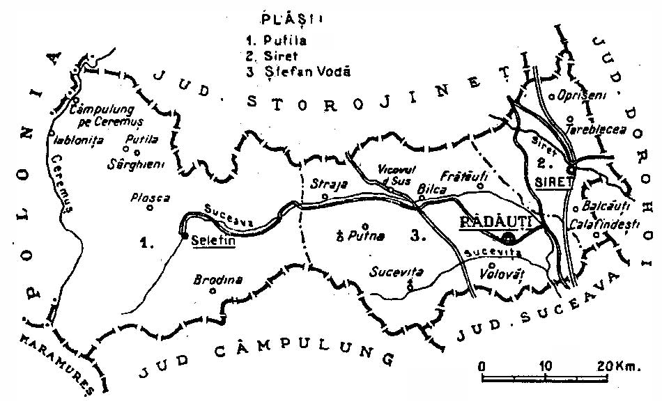 Map of Rădăuți interwar county, Kingdom of Romania (1938).